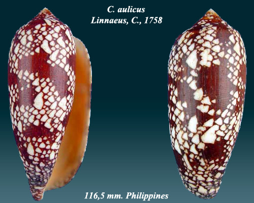 Conus aulicus 2